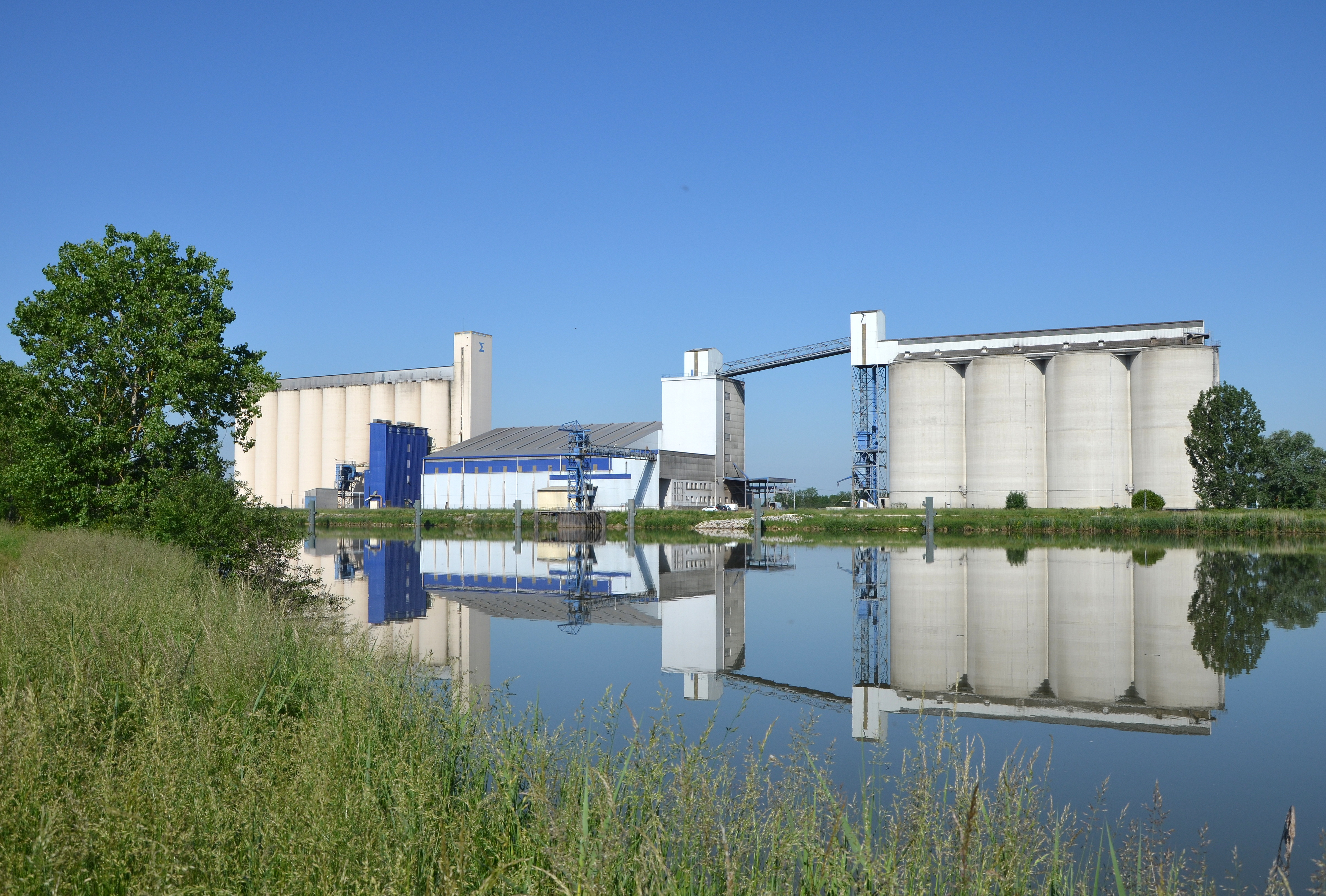 Grain elevators in Esbarres on the Saone river, Côte d'Or, Bourgogne, France